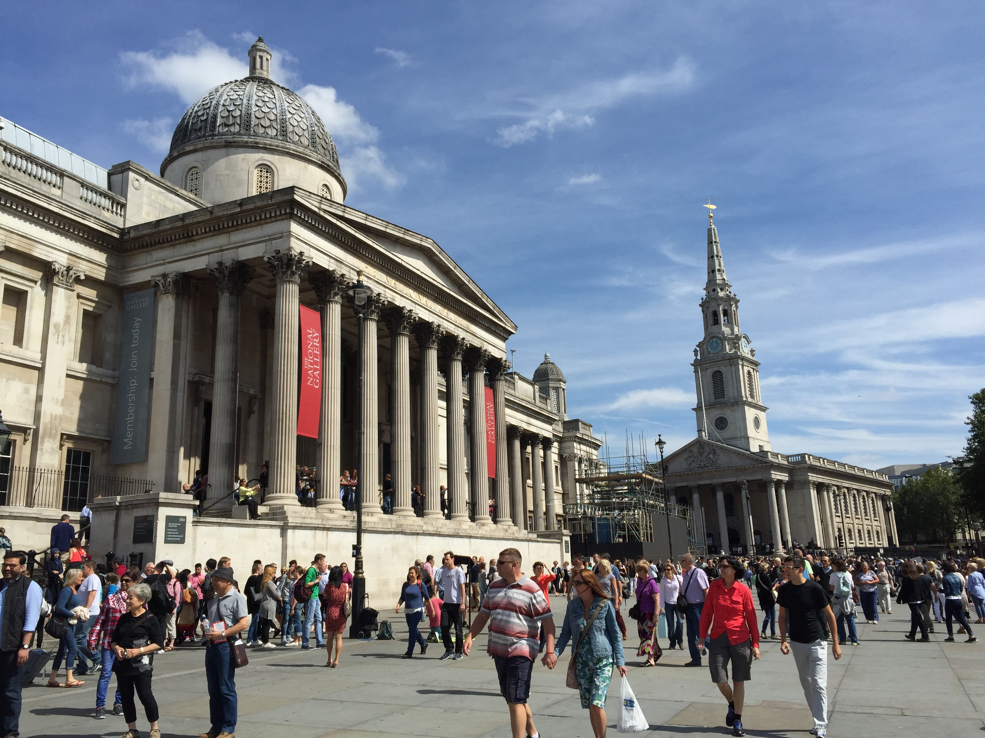 William Wilkins's building and St Martin-in-the-Fields